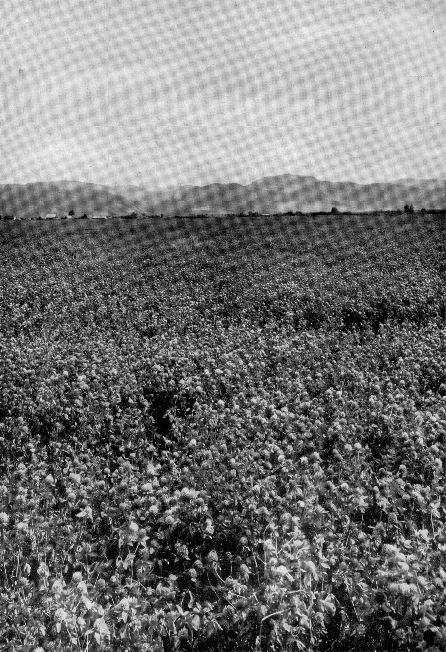 A CLOVER FIELD IN MONTANA. Although thirty-eight of the States have in one way or another expressed their preferences and chosen their flower queens, this is the first attempt that has been made to assemble in a single publication color paintings and descriptions of all the State flowers.